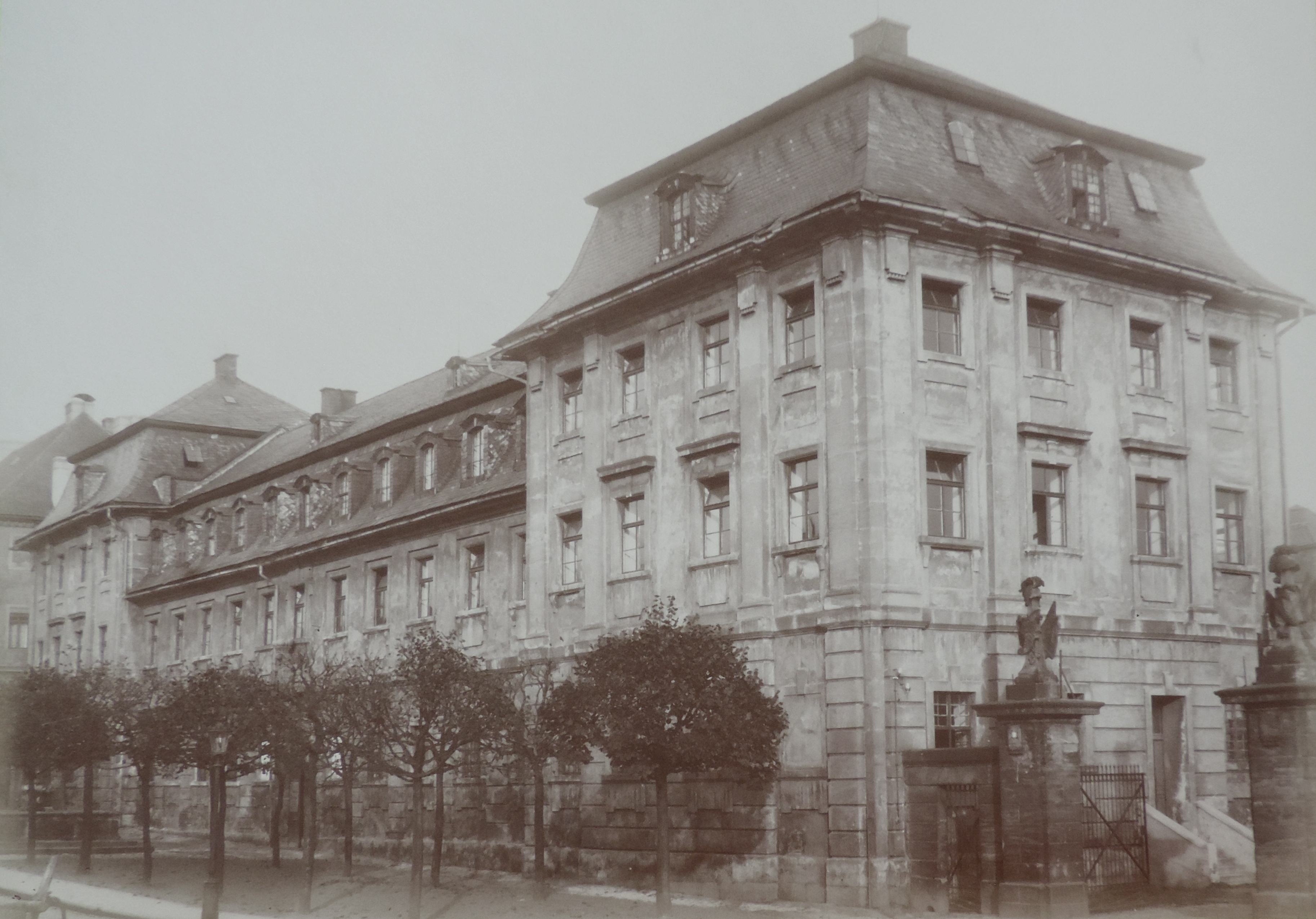 Views and photos of Bayreuth, Germany, gifted to Ferdinand I of Bulgaria to commemorate his 25-year rule. Old infantry barracks from 1737.